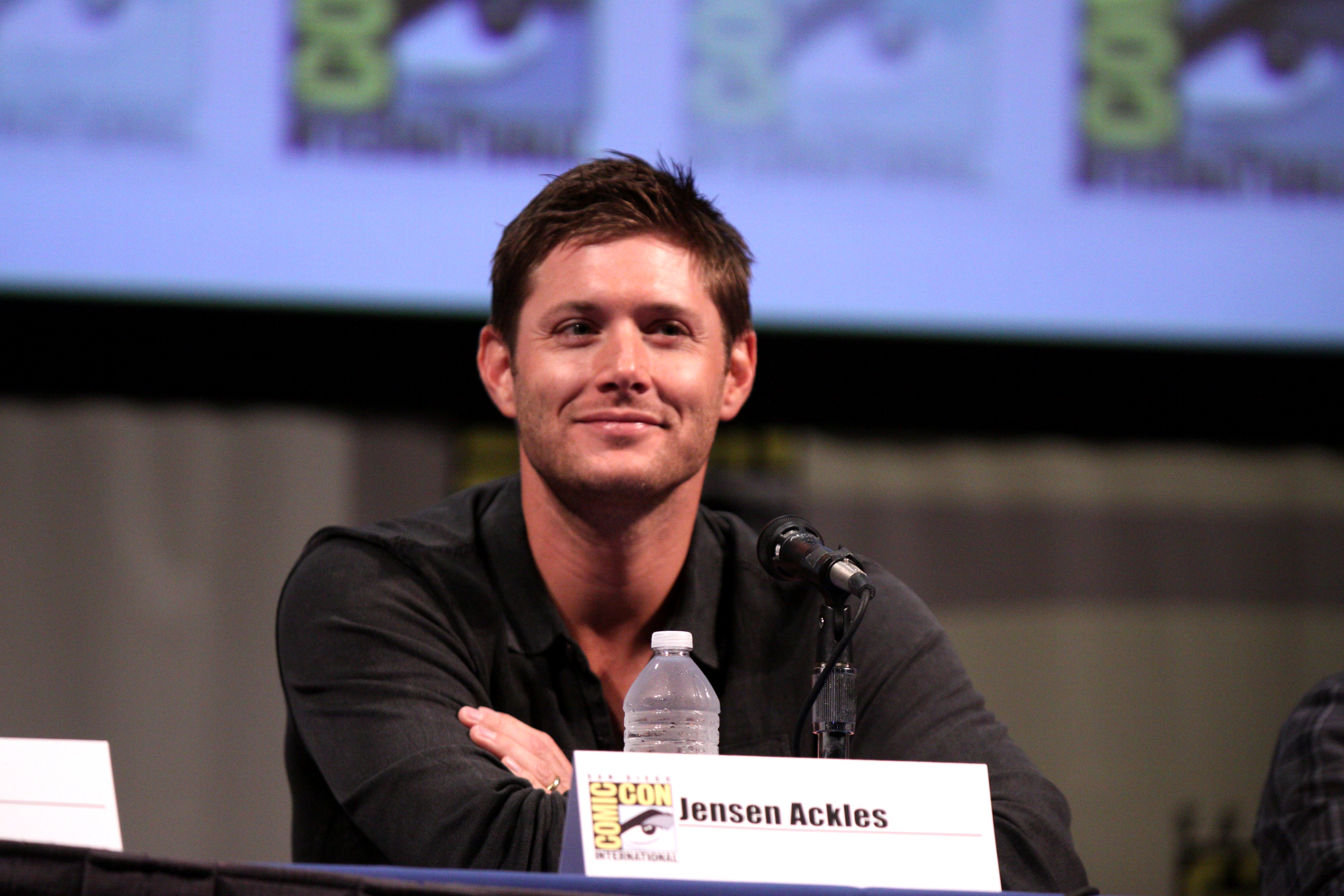 Jensen Ackles at the 2011 Comic Con in San Diego.